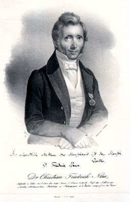 Christian Friedrich Neue (1799–1886), Professor of Classical Philology at the University of Tartu in 1831–1861, also served as the Rector of the university